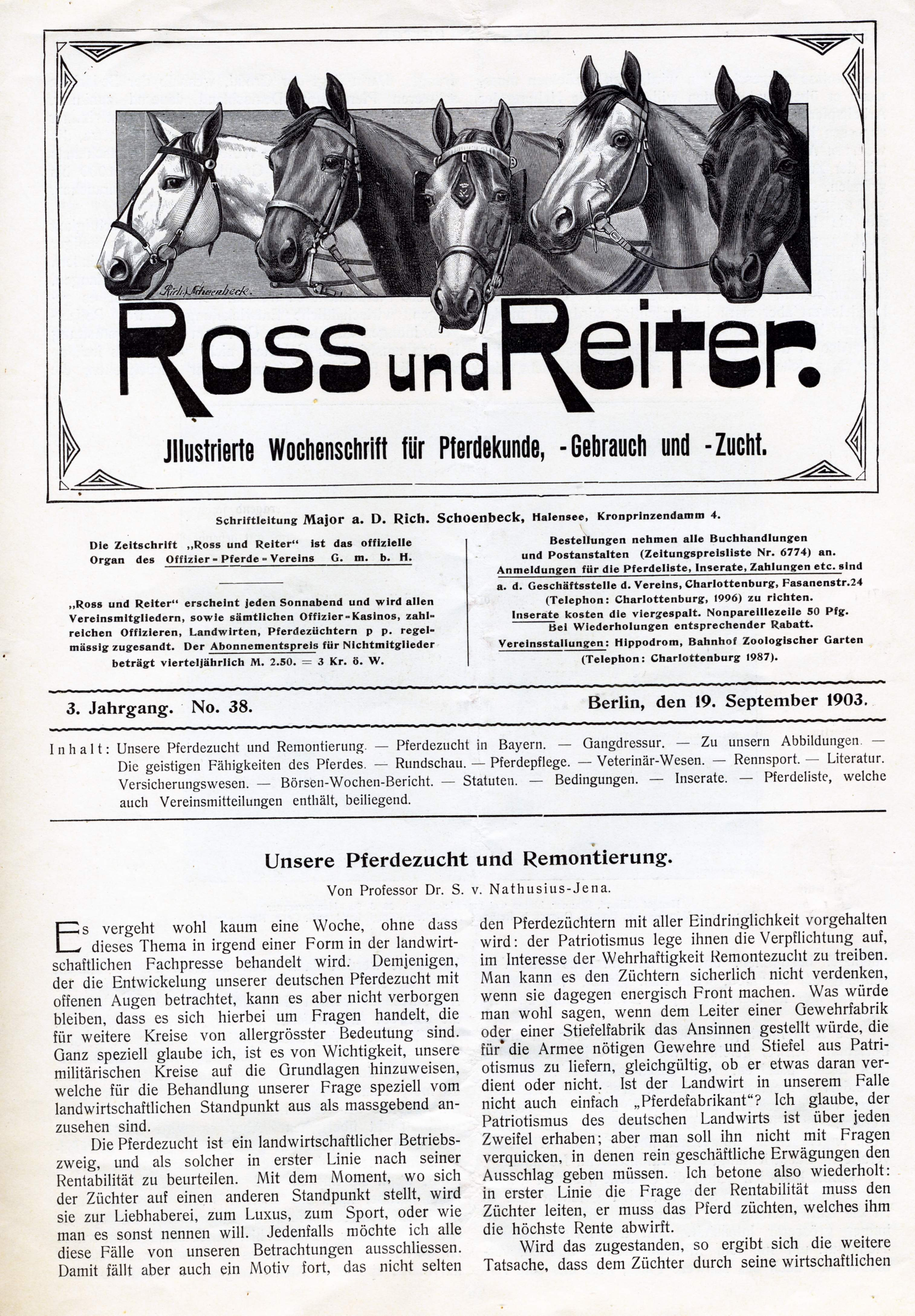 old magazine cover "Ross und Reiter"